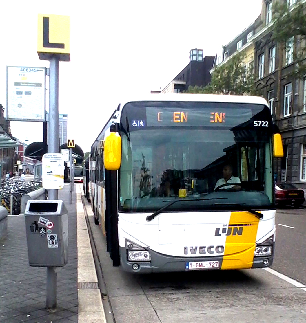 Iveco Crossway Low Entry in use by De Lijn in Maastricht